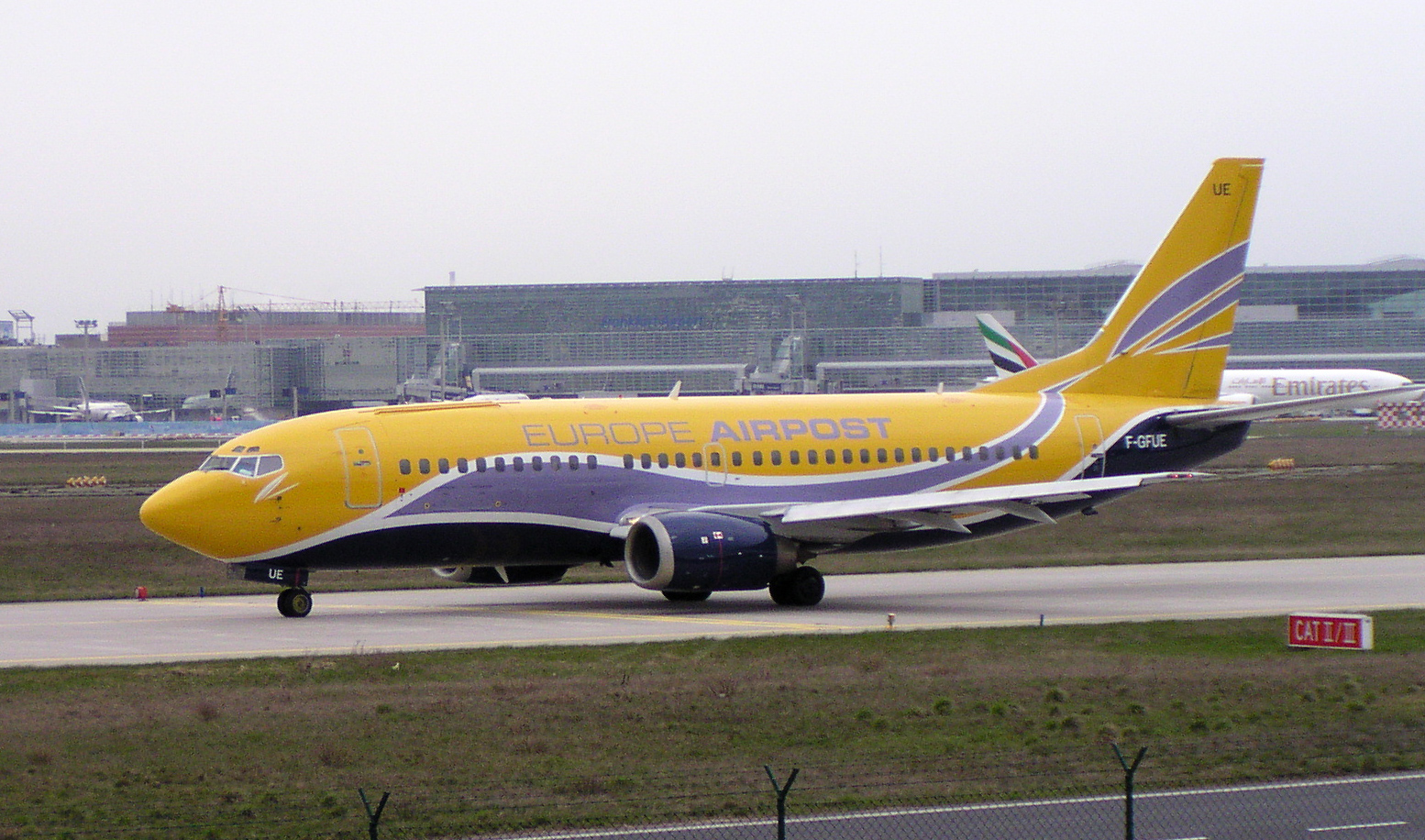 Europe Airpost B737-300F F-GFUE in Frankfurt/Main (EDDF)